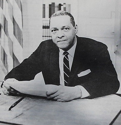 Official city photo of Robert O. Lowery, who was the first black Commissioner of the New York City Fire Department.